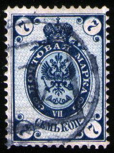 Russia stamp, 1883 (1884), 7 k.